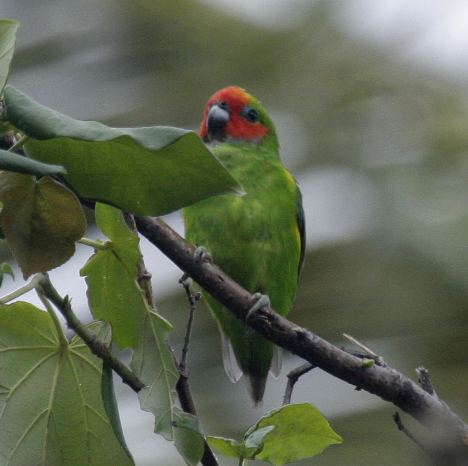 male Double-eyed Fig-Parrot (Cyclopsitta diophthalma) race marshalli Portland Roads, Cape York, N Queensland, Australia